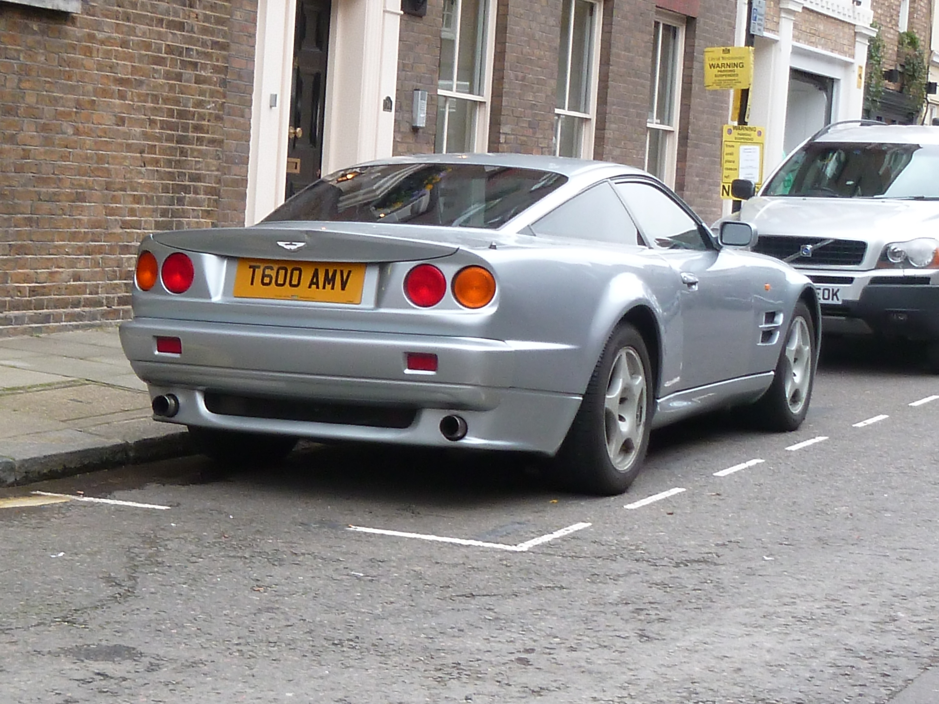 Aston martin V8 Vantage V600